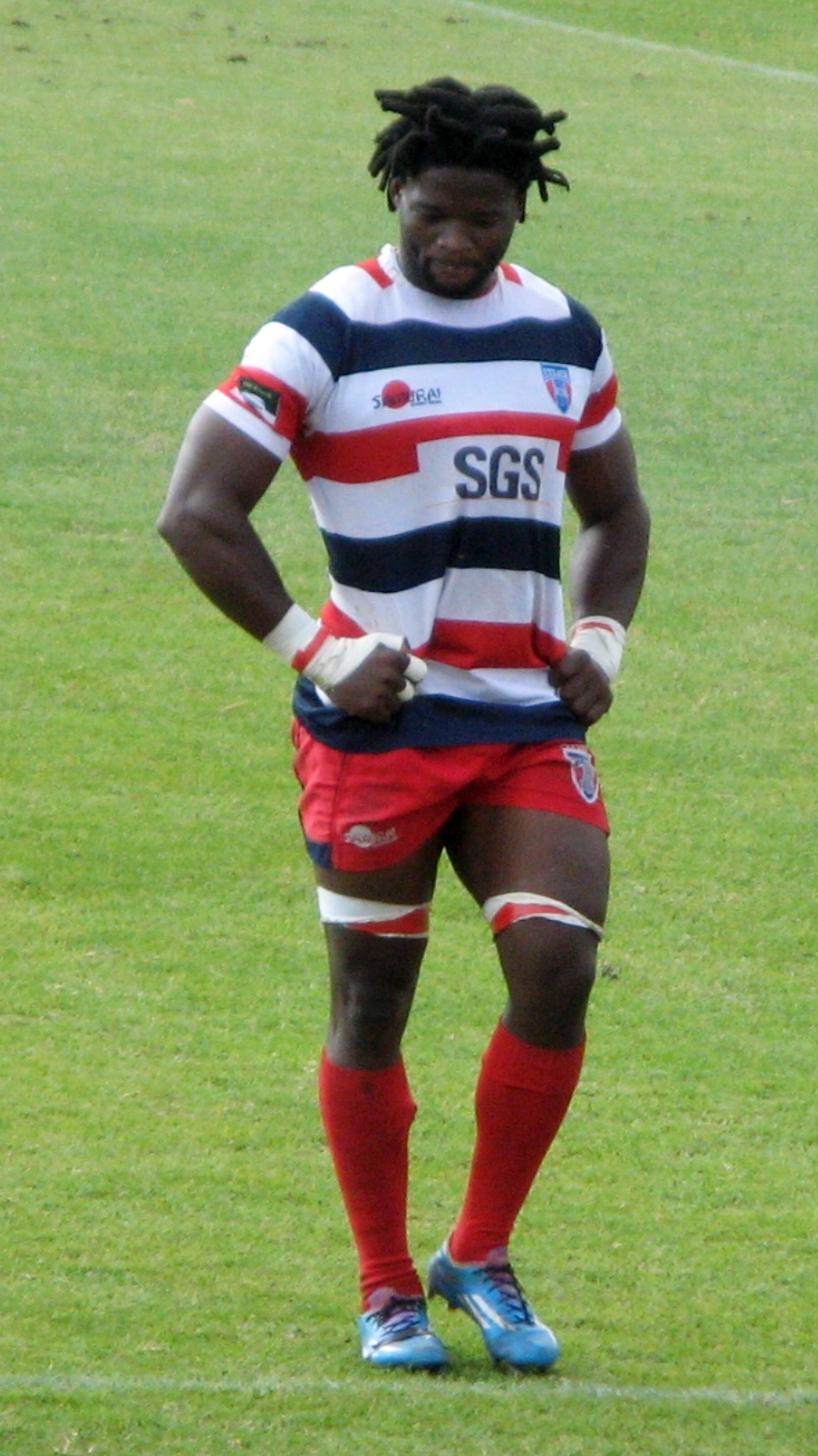 South African rugby union player, Kuselo Moyake, of CSA Steaua București rugby club seen in a match against CSM Baia Mare in Romanian Rugby SuperLiga in September 2017